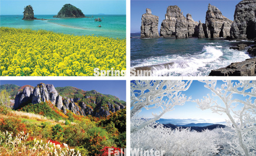 Korea has four distinct seasons. Spring and autumn are rather short, summer is hot and humid, and winter is cold and dry with abundant snowfall, especially in the mountainous regions, but not along the southern coast. Temperatures differ widely from region to region within Korea, with the average being between 10°C (50°F) and 16°C (61°F). In early spring, Siberian winds pick up "yellow dust" from thawing deserts in northern China and carry it to the peninsula and Japan. But in mid-April, the country also enjoys balmy weather with the mountains and fields garbed in brilliant wild flowers. Farmers prepare seedbeds for the annual rice crop at this time. Autumn, with its crisp air and crystal blue sky, is the season most widely loved by Koreans. The countryside is particularly beautiful, colored in a multitude of rustic hues. Autumn, the harvest season, features various folk festivals rooted in ancient agrarian customs.